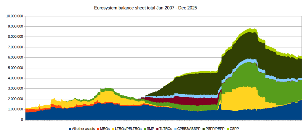 Development of the balance sheet of the Eurosystem (ECB plus participating national central banks). This graph is a successor of previous graphs, dus to my moving from MS Office to LibreOffice. My apologies for the lesser quality: LibreOffice seems to have problems with graphs with a (very) large number of data points.